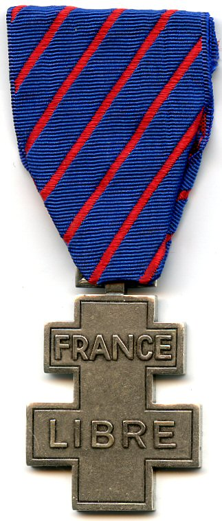 Commemorative medal for volunteer services in Free France, obverse